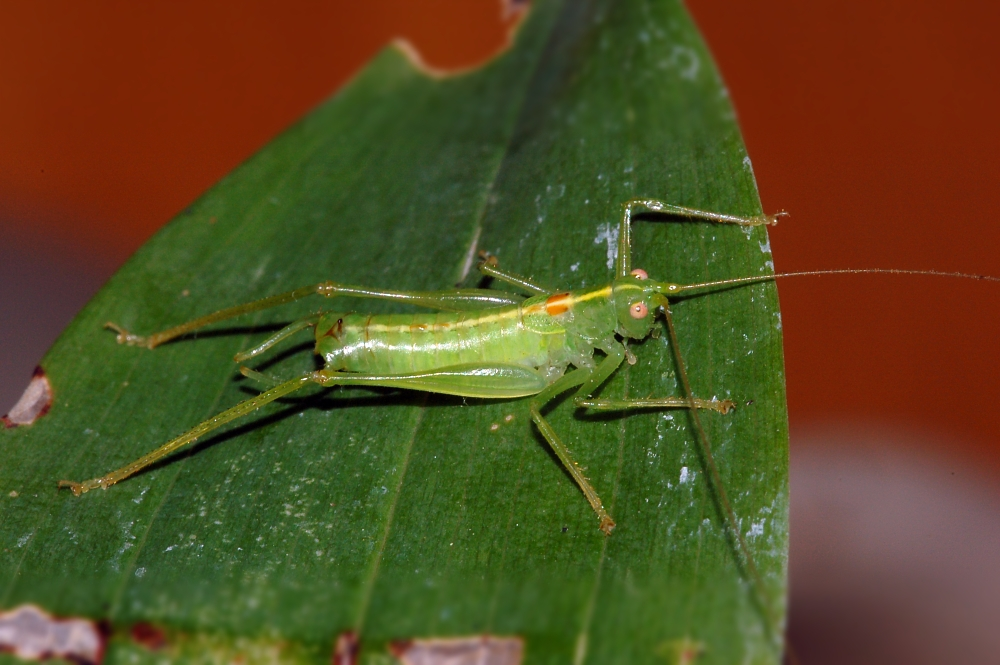 Meconema meridionale, Nied, Frankfurt/Main, Germany